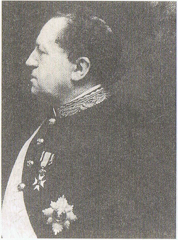 Abraham Kuyper